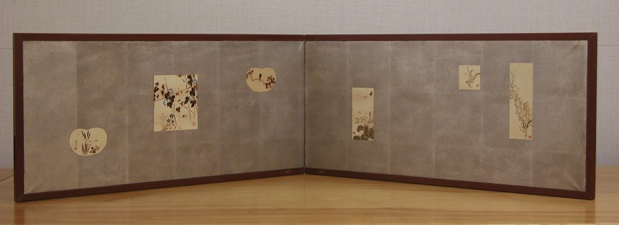 Japan; Screen; Screens